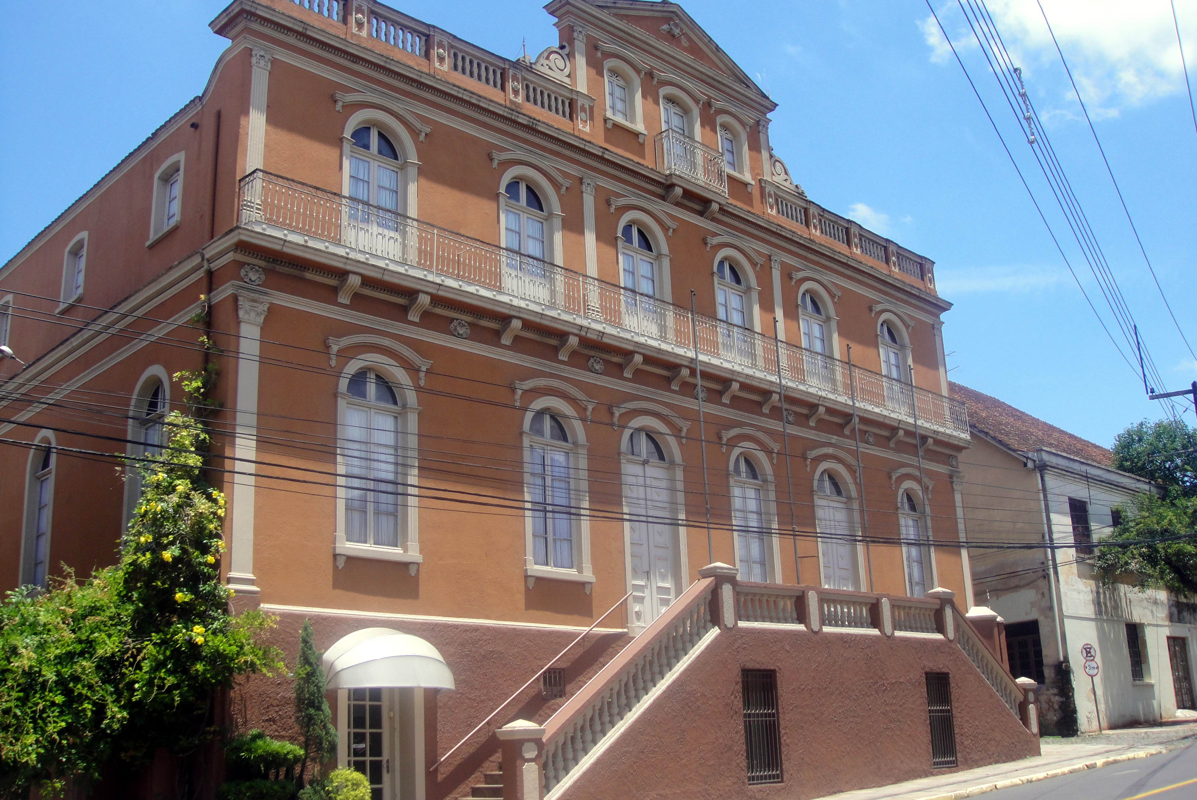 Foundation Scheffel